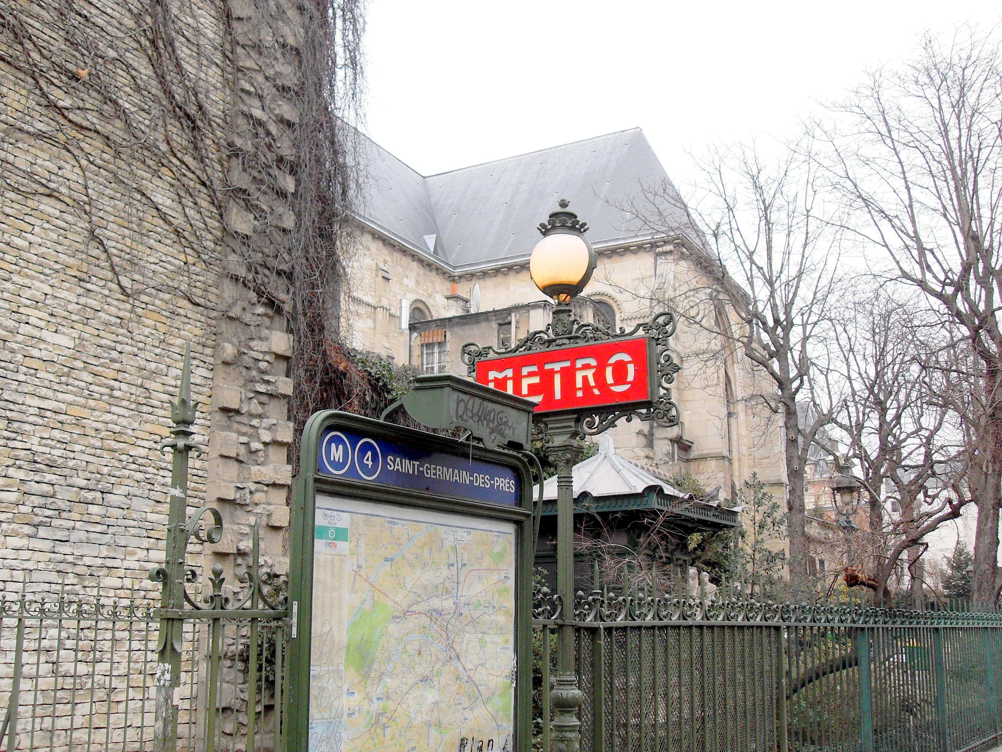 Saint-Germain-des-Prés metro station, before the so-called church.